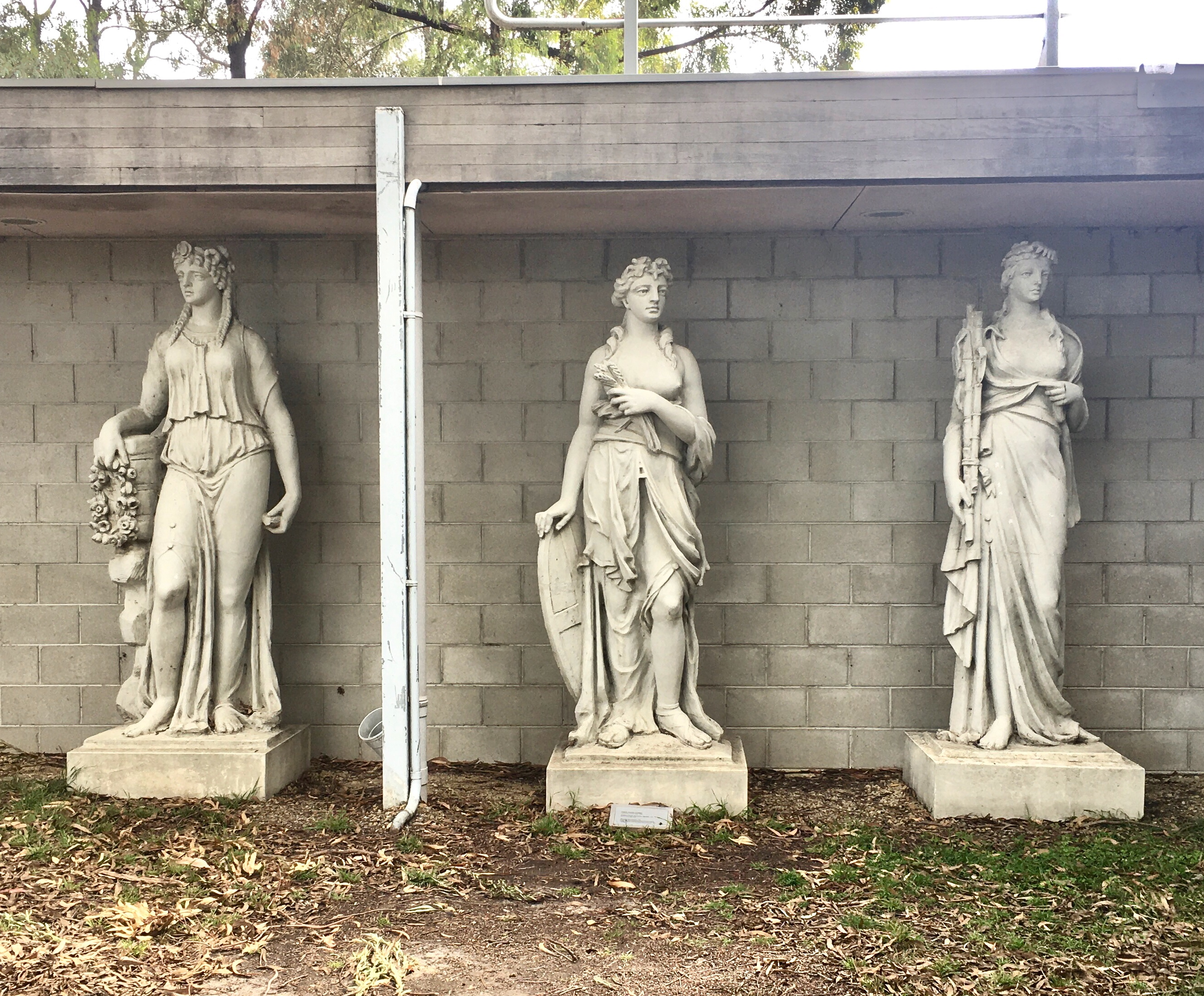 Federal Coffee Palace Melbourne 1888 statuary from exterior corner by Charles William Scurry now at McClelland Gallery, Frankston